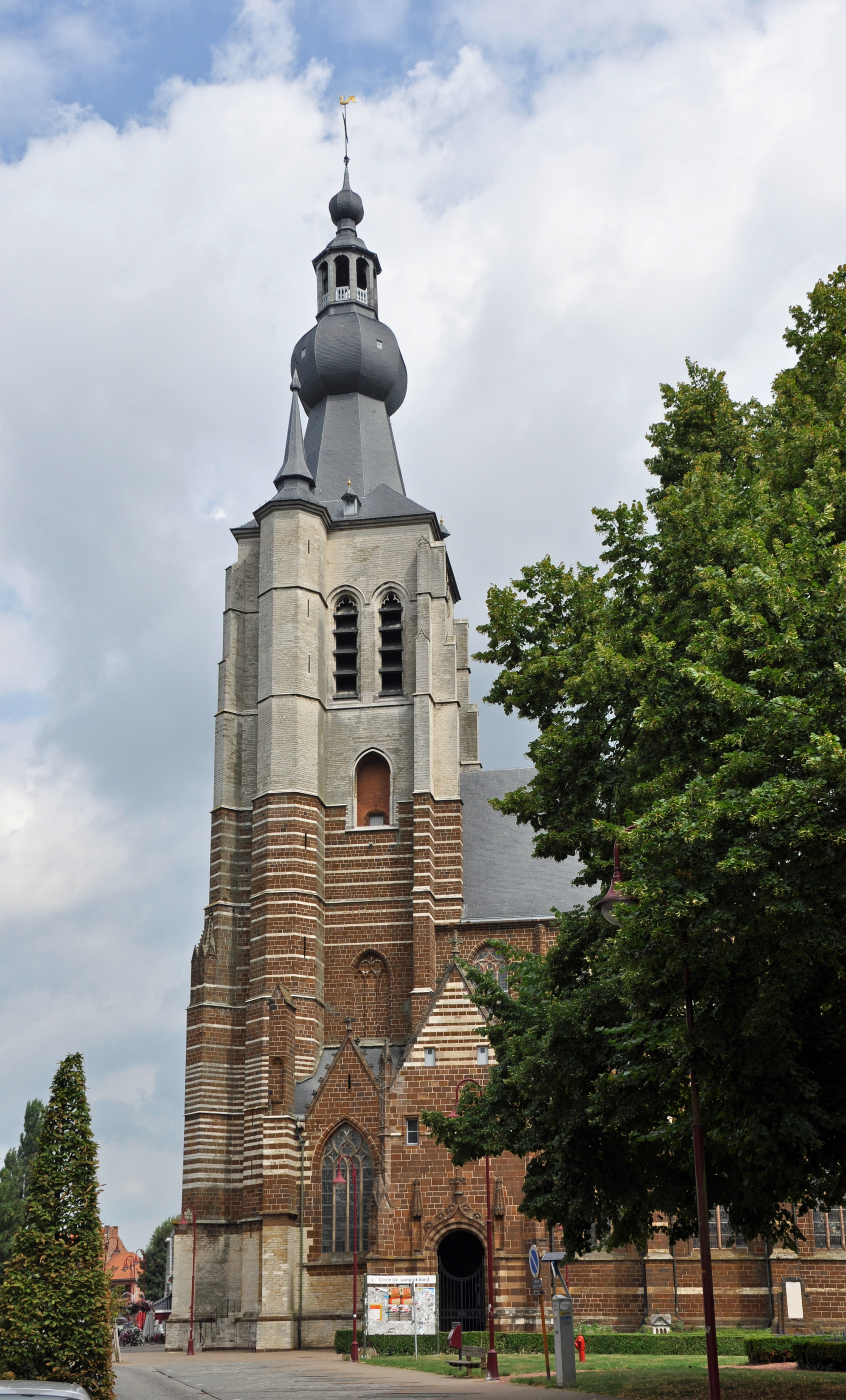 Aarschot (Belgium): the tower of St Mary's church